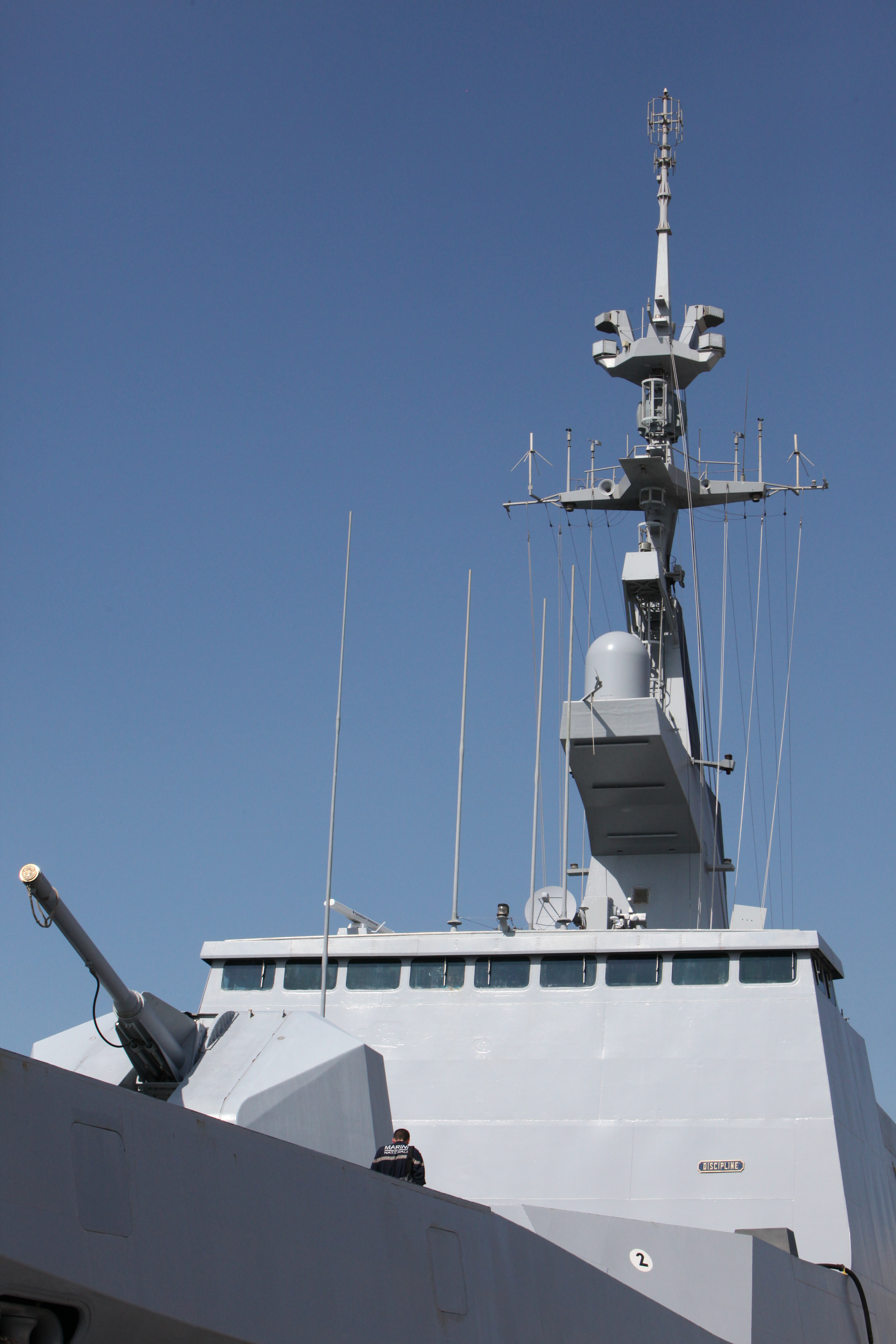 Bow bridge of the stealth frigate Surcouf.